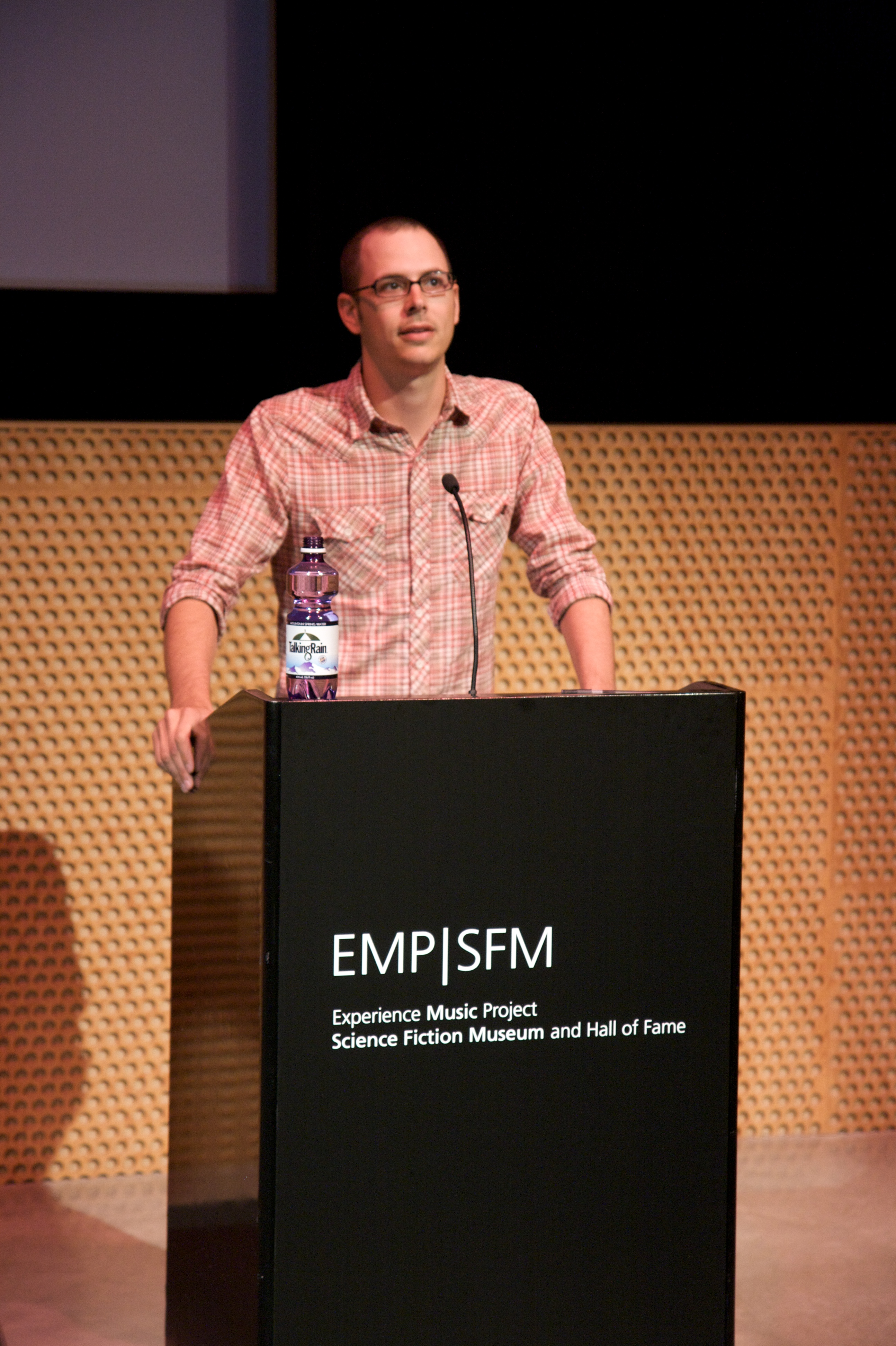 Daniel H. Wilson talking at the Science Fiction Museum and Hall of Fame in Seattle.